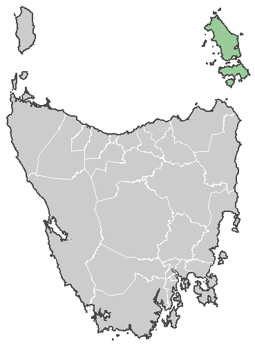 Map of Tasmanian LGA's feat Flinders